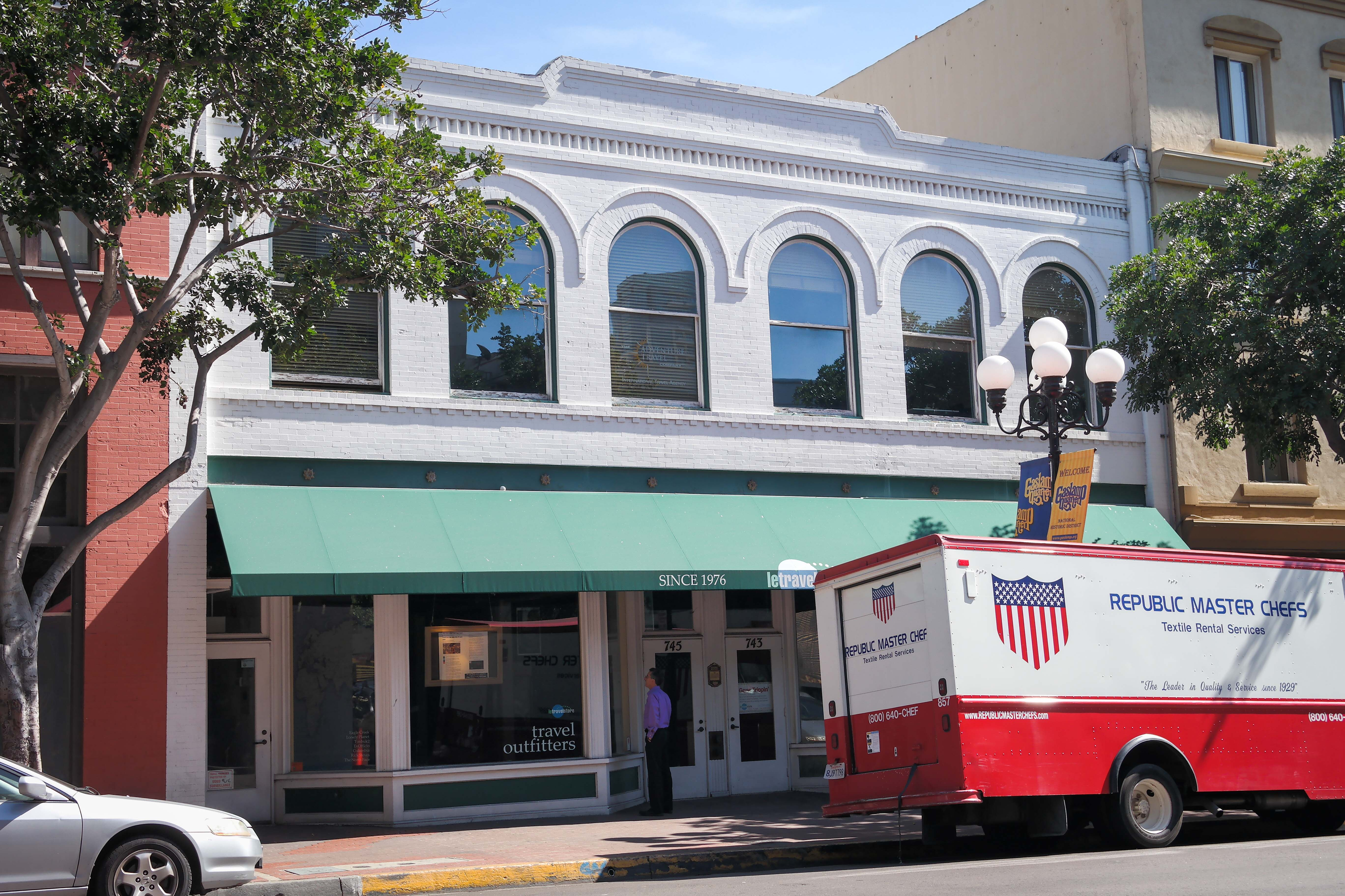 Historic Building Survey plaque: "13 Labor Temple Building, 1907. This building was the meeting place for various unions, including those for bartenders, cigar makers, theatrical employees, and the Women Union Labor Leagues. Also home to the San Diego Machine Shop, which operated here for four years during the 1920s. Other tenants include the San Diego Board of Health and the Pacific Chemical Company."